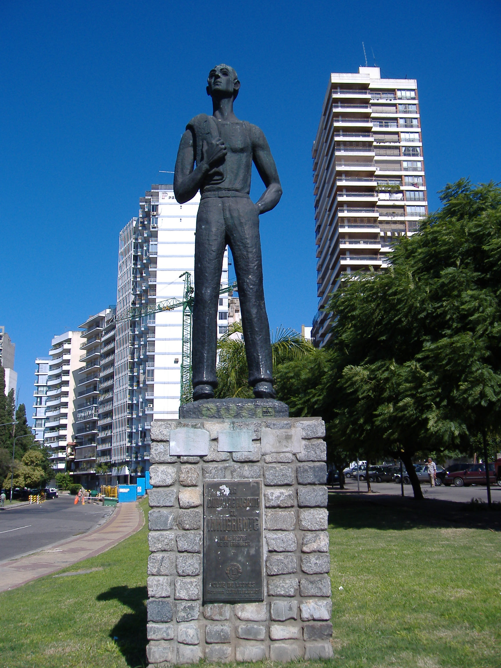 Homage to the Immigrant, in Rosario, Argentina. Dedicated to the immigrant community from around the world that helped build the Argentine nation.